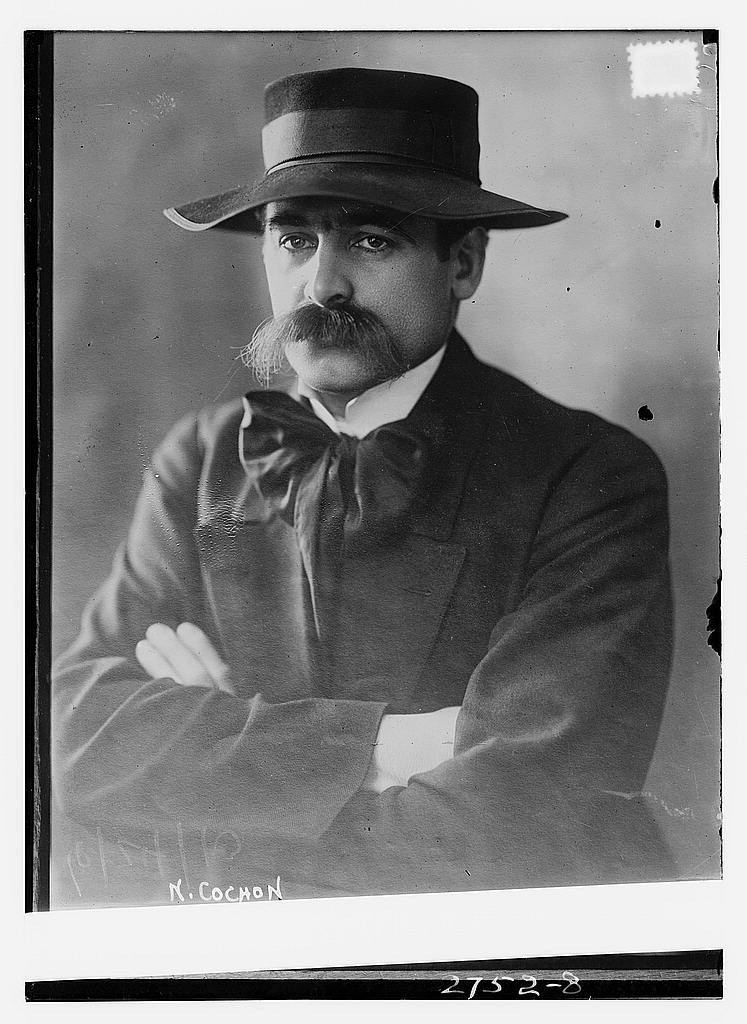 Georges Cochon circa 1912-1913 [no date recorded on caption card] 1 negative : glass ; 5 x 7 in. or smaller. Notes: Title from unverified data provided by the Bain News Service on the negatives or caption cards. Forms part of: George Grantham Bain Collection (Library of Congress). Format: Glass negatives. Repository: Library of Congress, Prints and Photographs Division, Washington, D.C. 20540 USA, Call Number: LC-B2- 2752-8 General information about the Bain Collection is available at Persistent URL